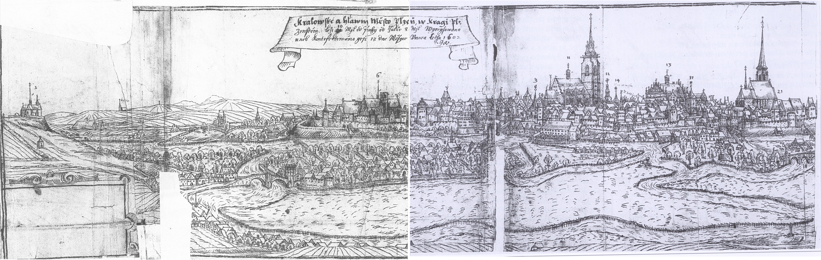 City of Plzeň (Pilsen), Czech Republic, "Velký pohled na Plzeň" ("The big view") 1602